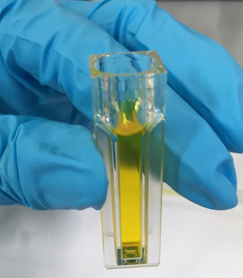 to measure absorbance at 540 nm using a spectrophotometer